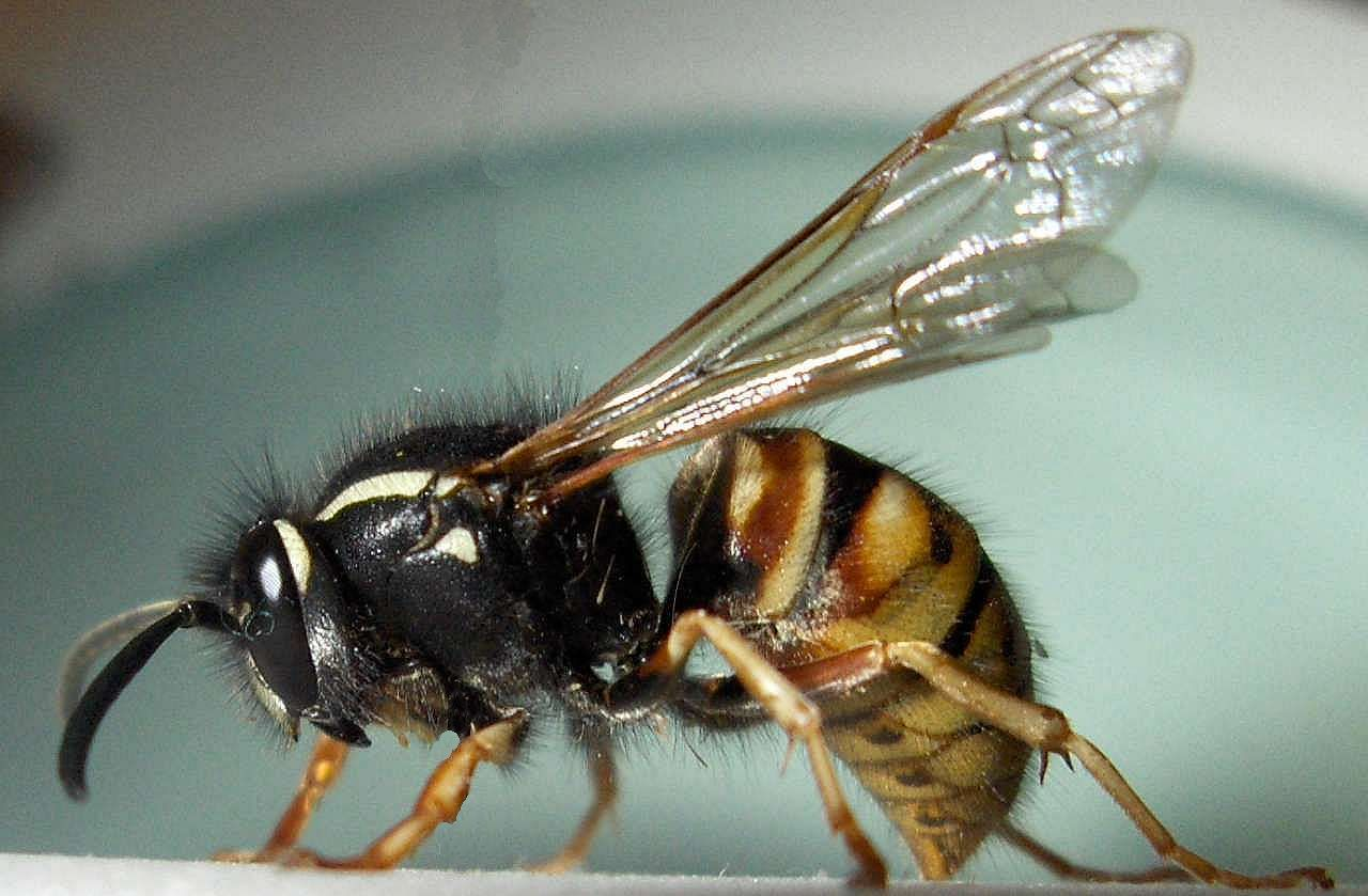 Queen of Vespula rufa